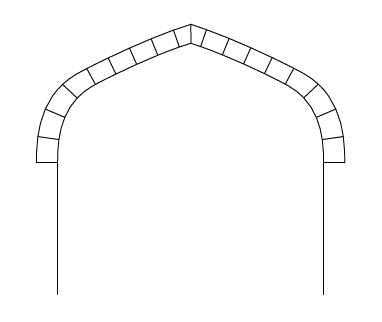 Tudor arche